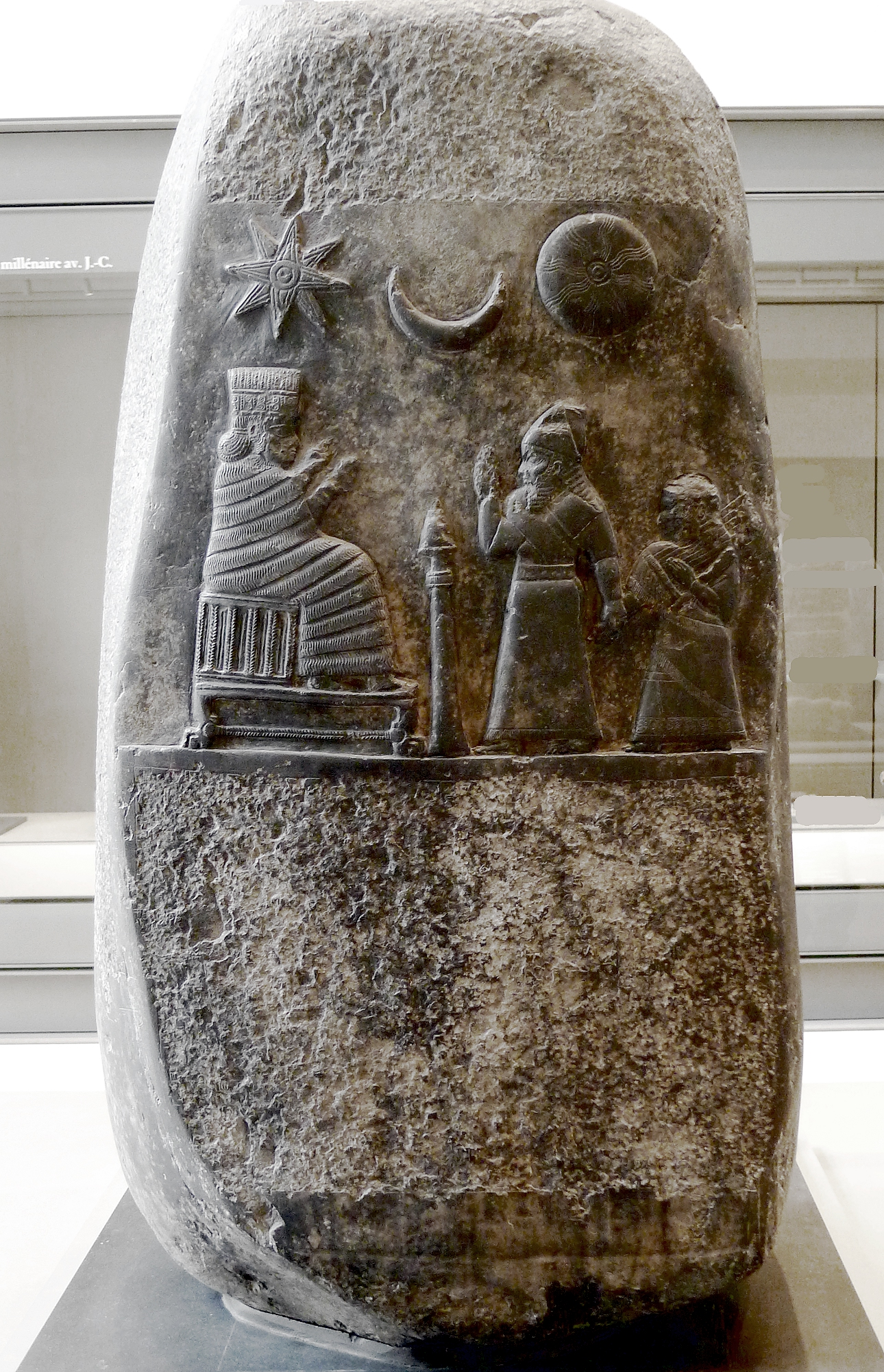 Kudurru (stele) of King Melishipak I (1186–1172 BC): the king presents his daughter to the goddess Nannaya. The crescent moon represents the god Sin, the sun the Shamash and the star the goddess Ishtar. Kassite period, taken to Susa in the 12th century BC as spoils of war.